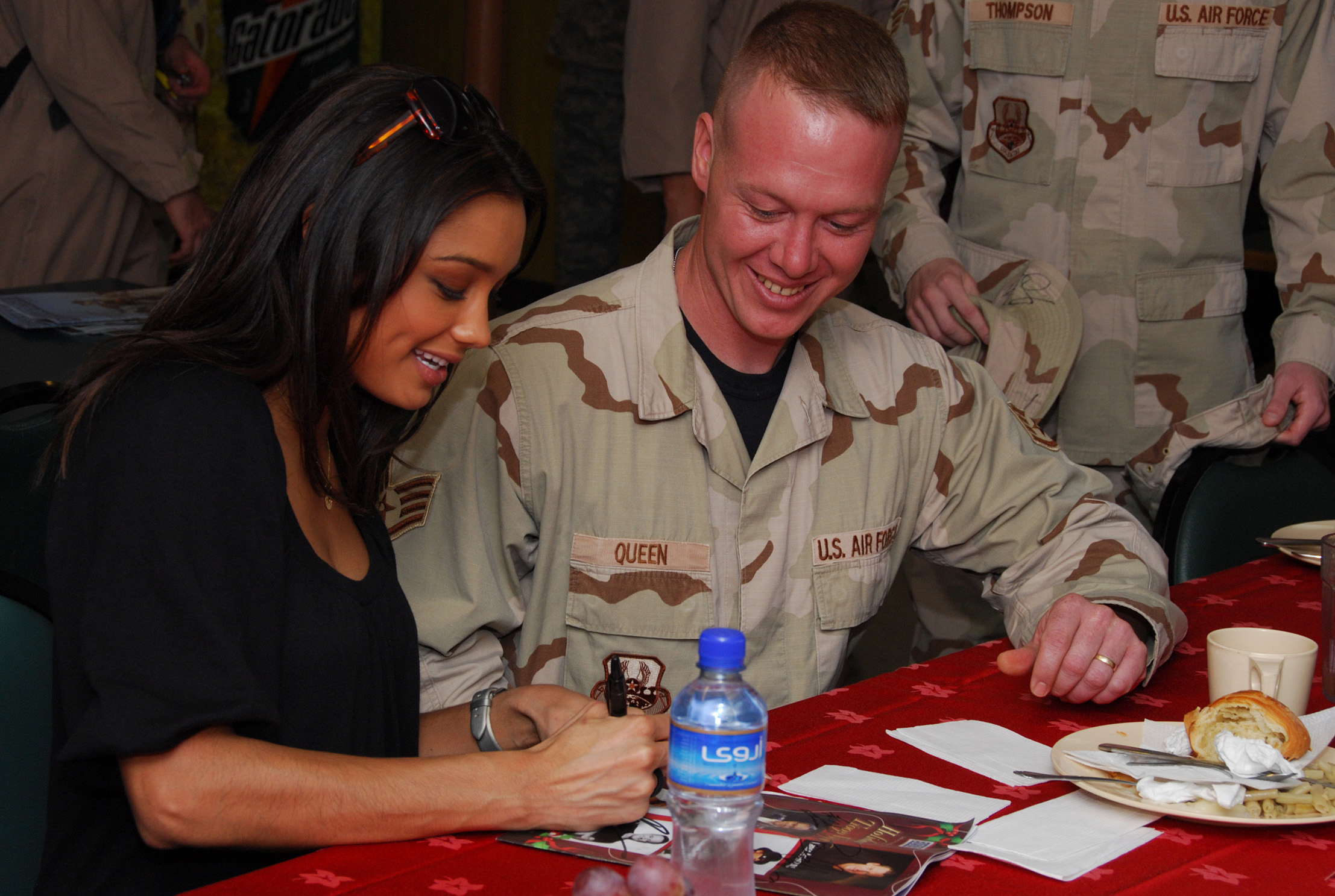 Miss USA, Rachel Smith, signs an autograph for Staff Sgt. Christopher Queen at the Independence Dining Facility at a Southwest Asia air base Dec. 17. Miss USA is one of the celebrities touring with the USO 2007 holiday show.